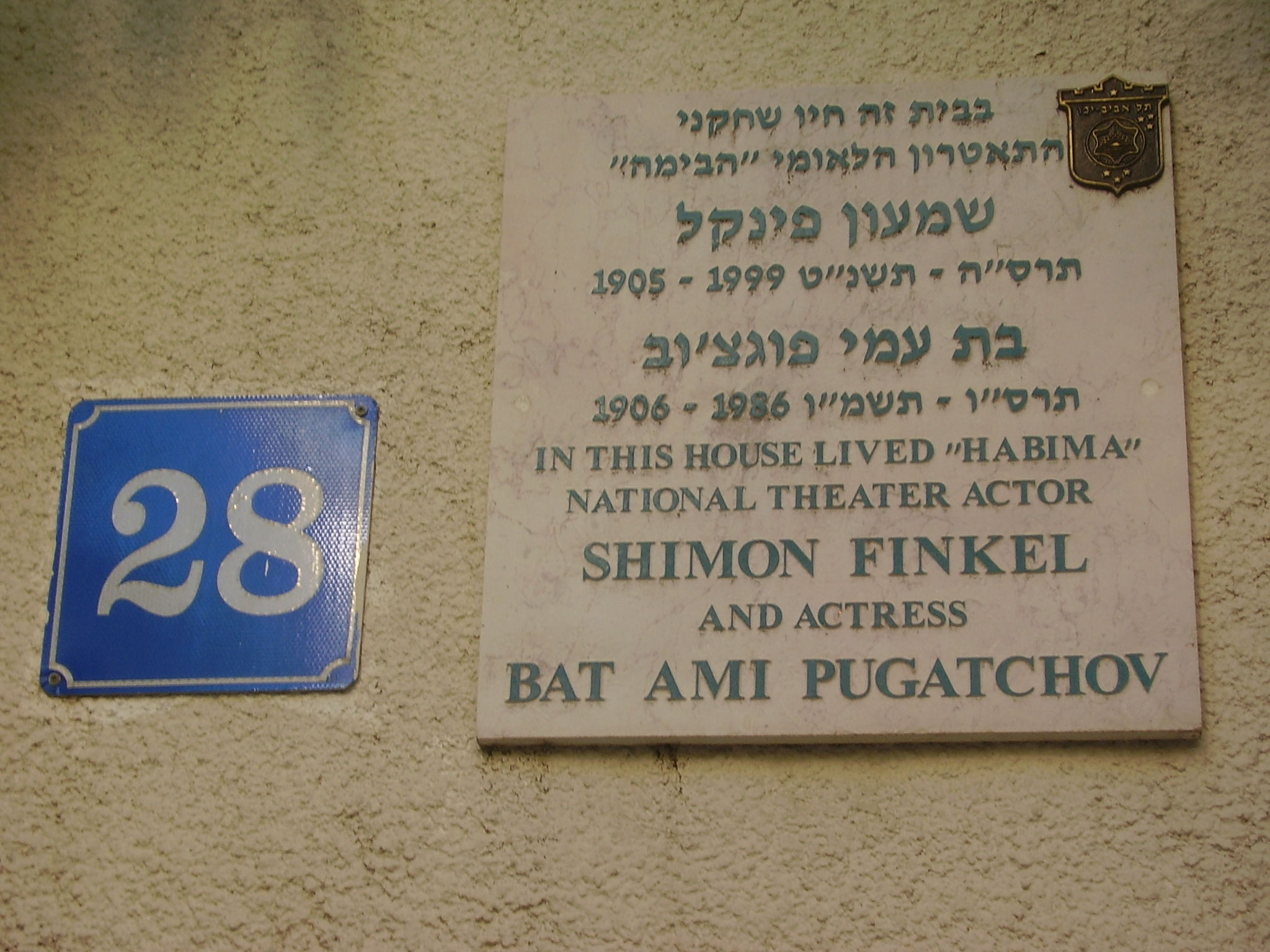 memorial plaque at the house of the habima actors finkel-pugatchov in tel aviv לוחית זיכרון על ביתם של שמעון פינקל ואשתו הראשונה בת עמי פוגצ'וב ברח' דב הוז 28 בתל אביב